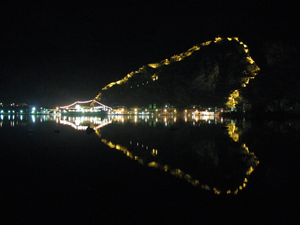 MV Logos II in Kotor, Montenegro